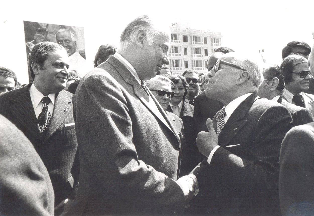 Tunisian President Habib Bourguiba (r) with French interior Minister Michel Poniatowski in Monastir in 1976. Tunisian ambassador in France is seen at the left.